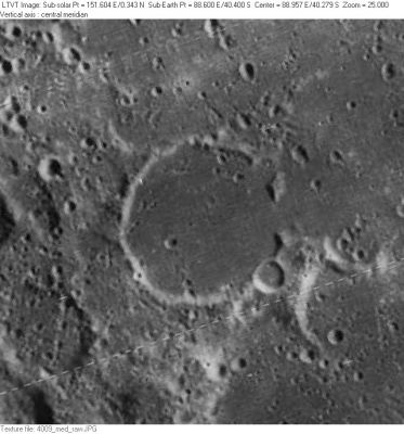 LO-IV-009M Gum is the semi-circular enclosure in the center. The northeast rim of 57-km Hamilton is visible in the extreme lower left corner.